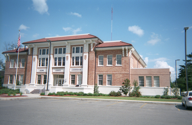 Stone County Courthouse in Wiggins, Mississippi, United States